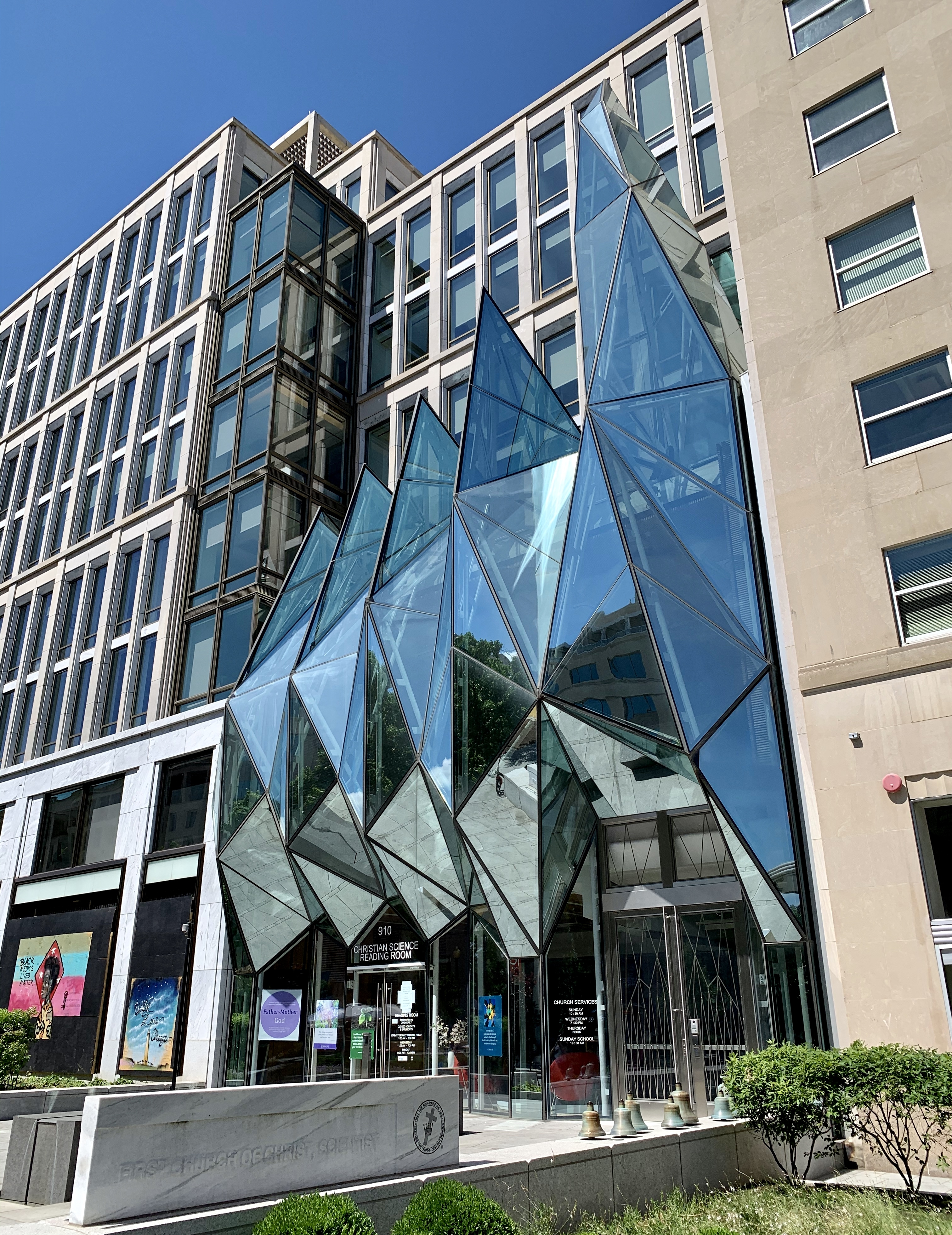 The First Church of Christ, Scientist, (formerly known as the Third Church of Christ, Scientist) is located at 910 16th Street NW in Washington, D.C.